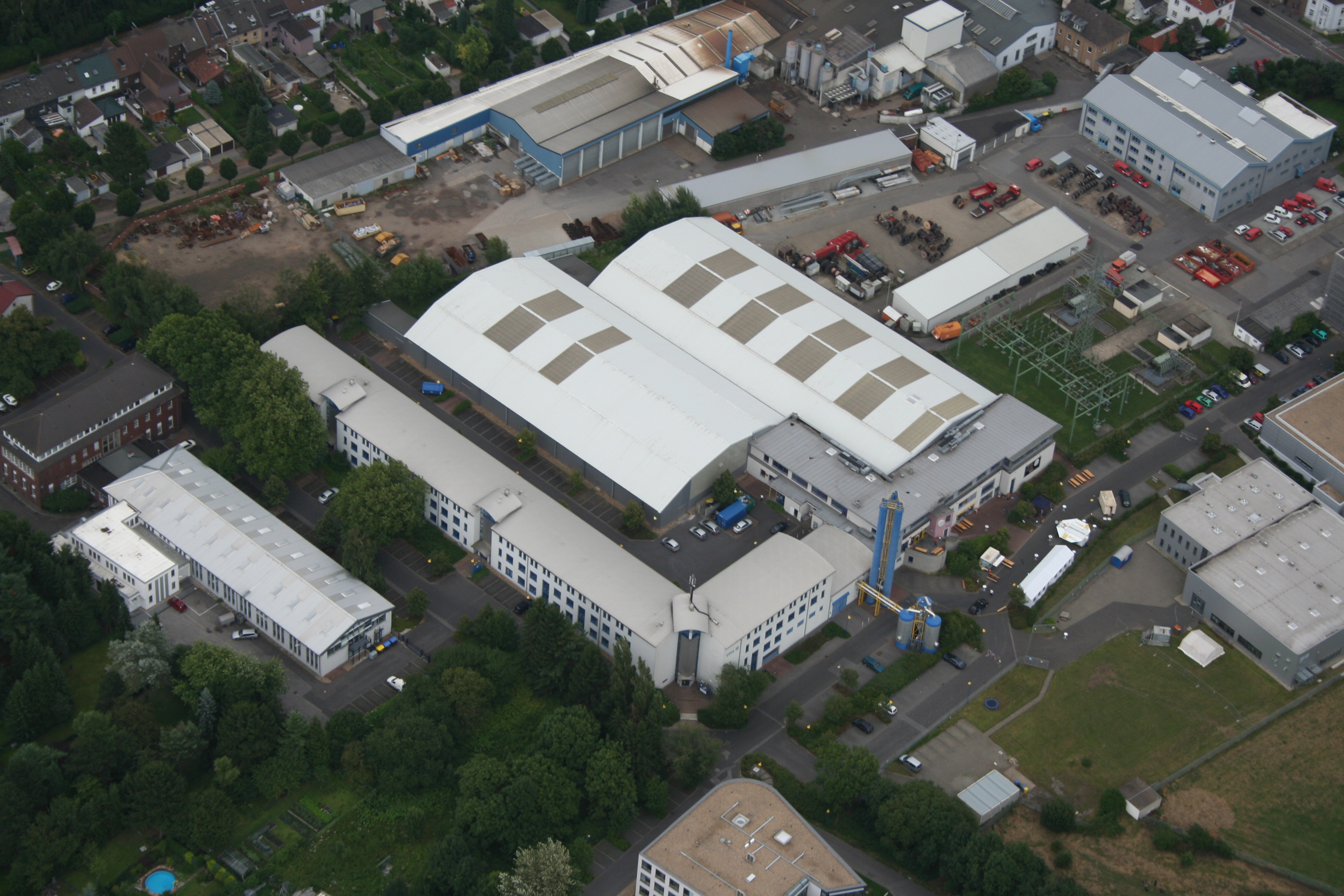 Kohlscheid soccer and beachvolleyball, between Ebertstraße and Kaiserstraße in Herzogenrath, Germany; 110 kV substation with pylon (top right)